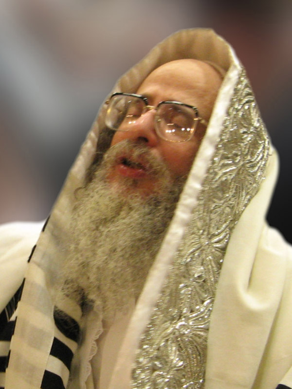 Rabbi Shmuel Duvid Halberstam Sanz Klausenburger Rebbe Davening